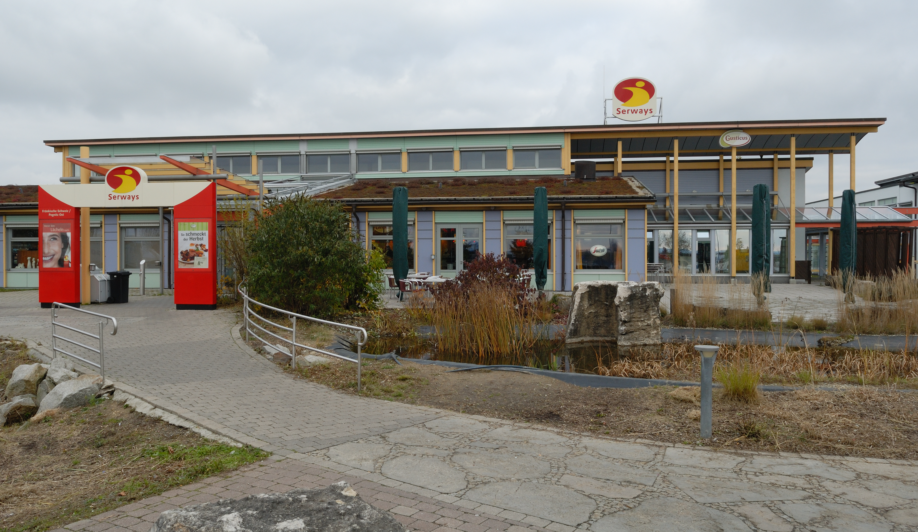 Highway restaurant "Fränkische Schweiz" (east side) at Autobahn A 9 near Pegnitz. Franchisor "Serways" is a brand of "Tank & Rast".